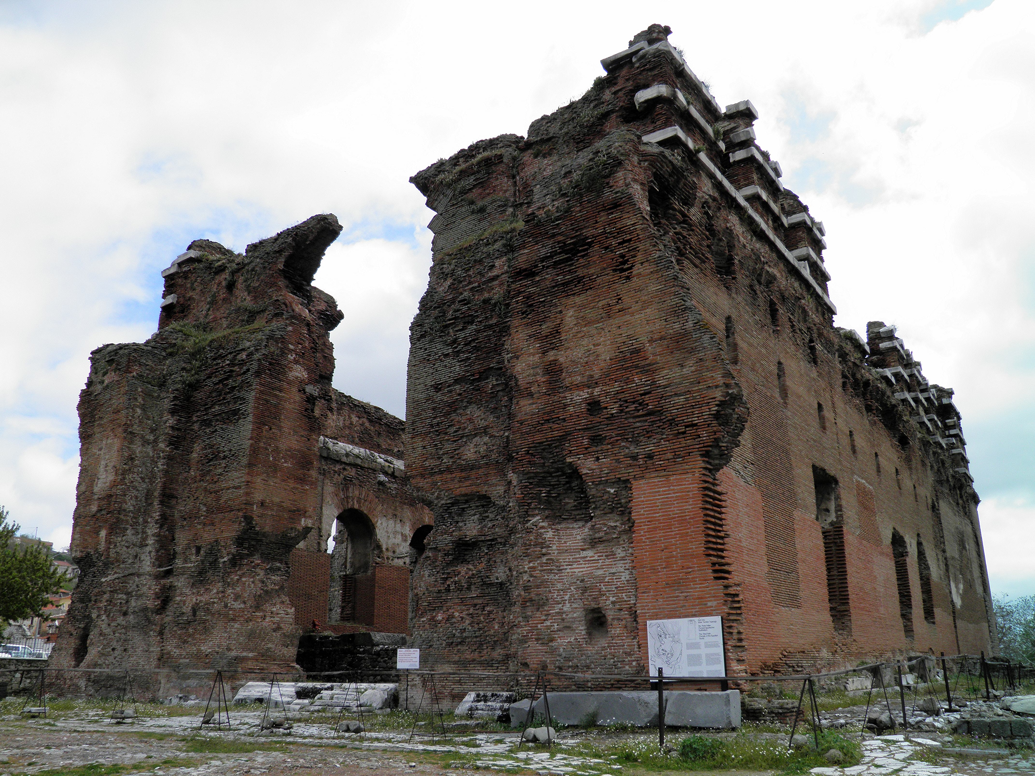 The Red Basilica, monumental ruined temple thought to have been used for the worship of the Egyptian gods and probably built in the orders of Hadrian, Pergamon (Bergama Turkey)